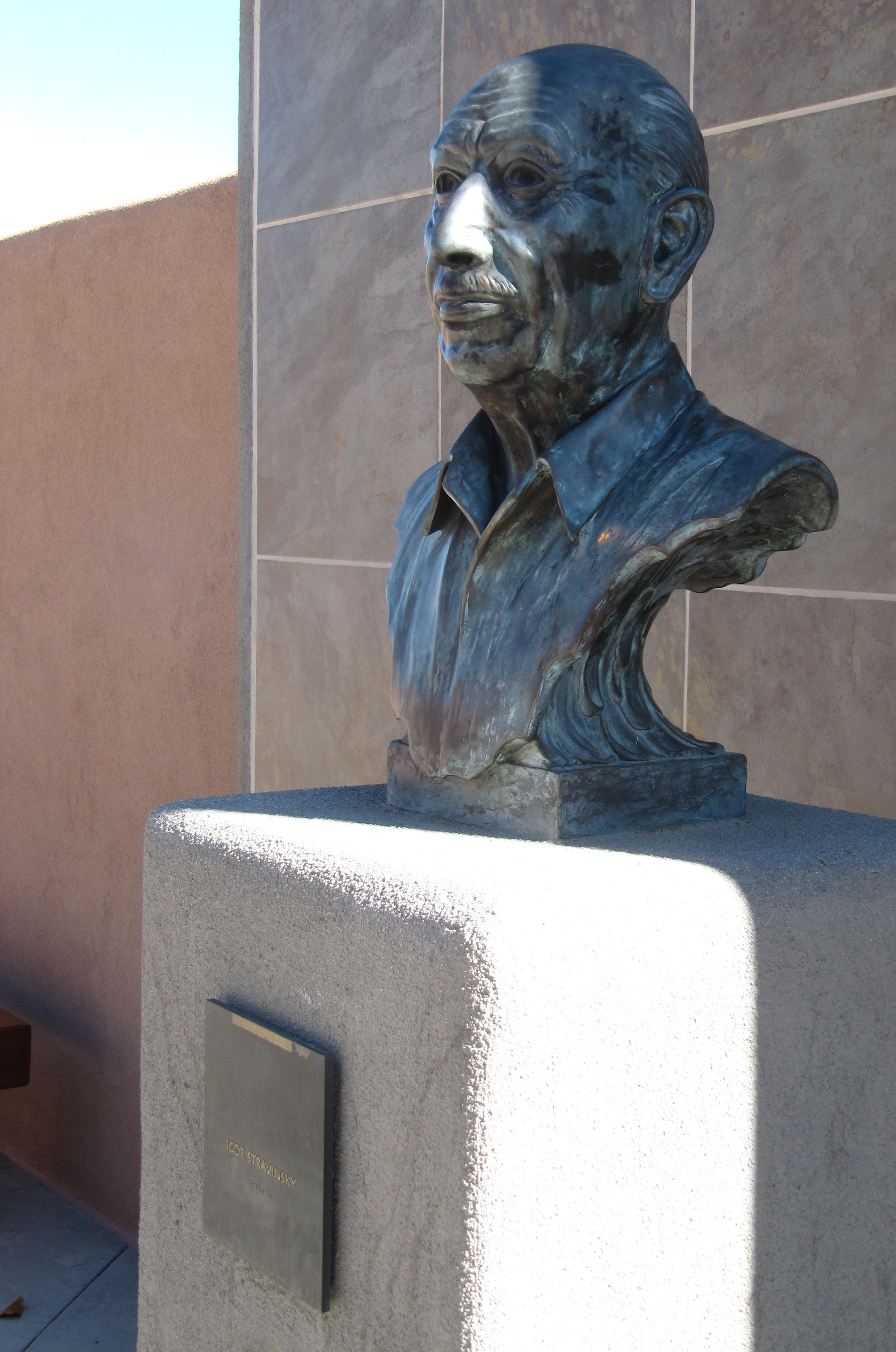 Bust of composer Igor Stravinsky on the Stravinsky Terrace of The Santa Fe Opera. Stravinsky was a regualr particpant in the 1957 to 1962 opera seasons.